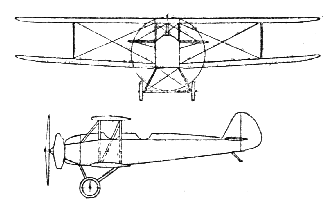 Focke-Wulf S 24 2-view drawing from Le Document aéronautique March,1929